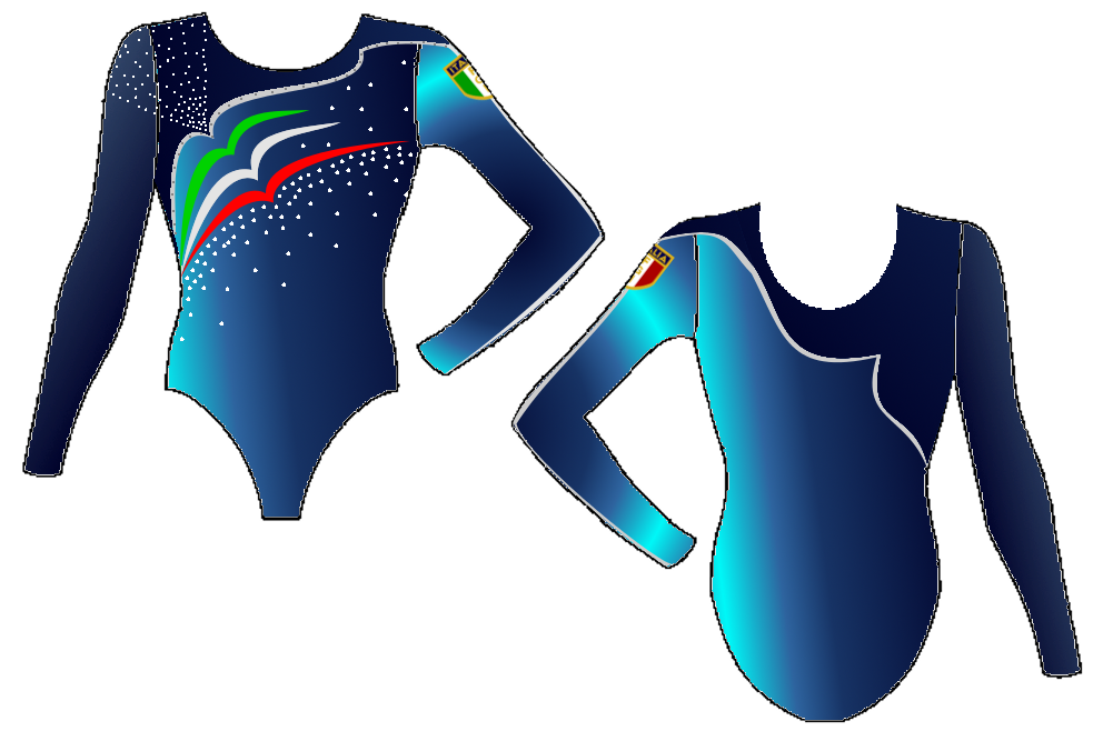 Leotard of 2013 Italian national team